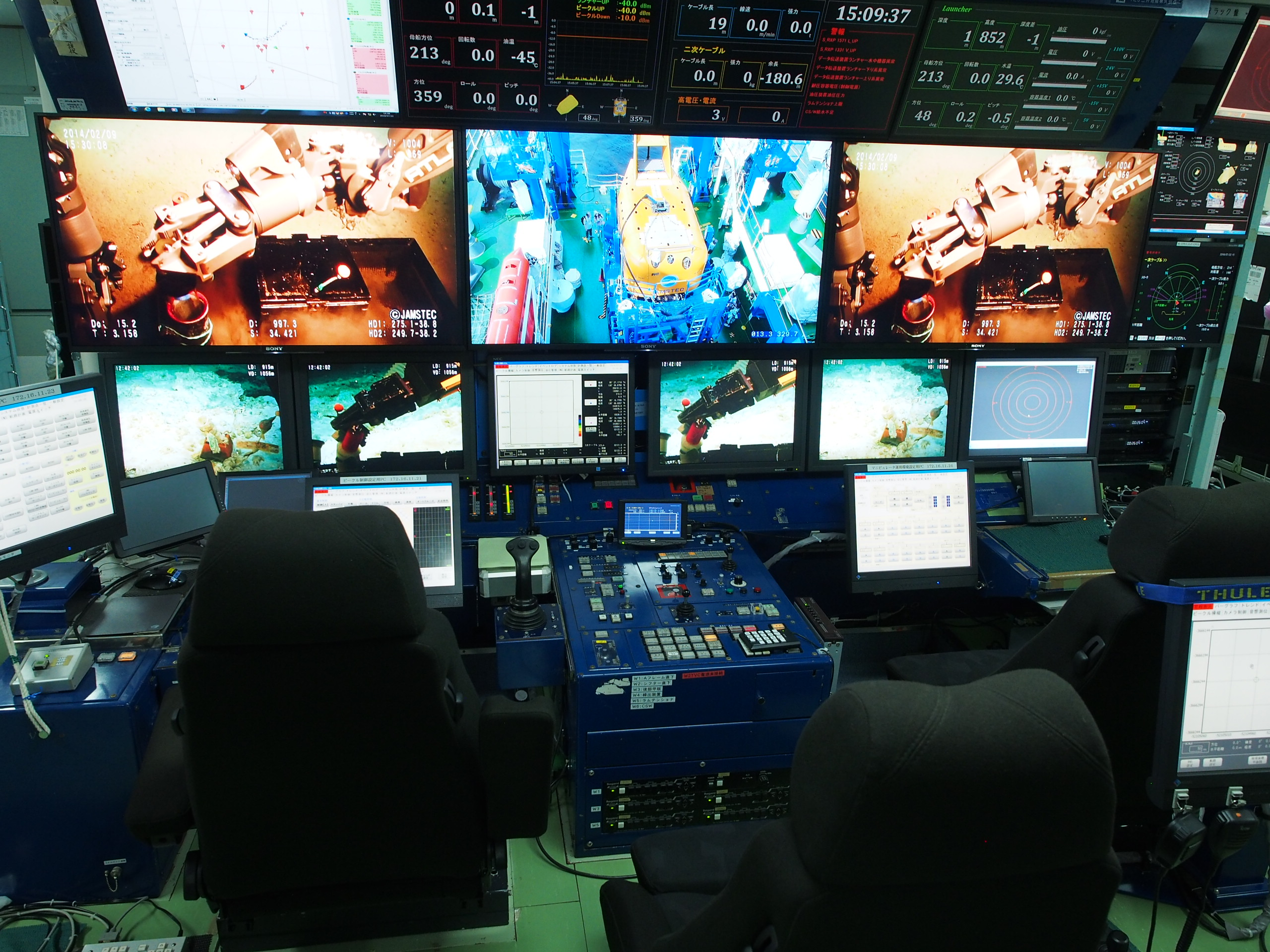 The operator console of the remotely operated submersible vehicle Kaikō Mk-IV aboard the Deep Sea Research Vessel Kairei. Photographed on the open house of Kairei for Umihaku 2018.